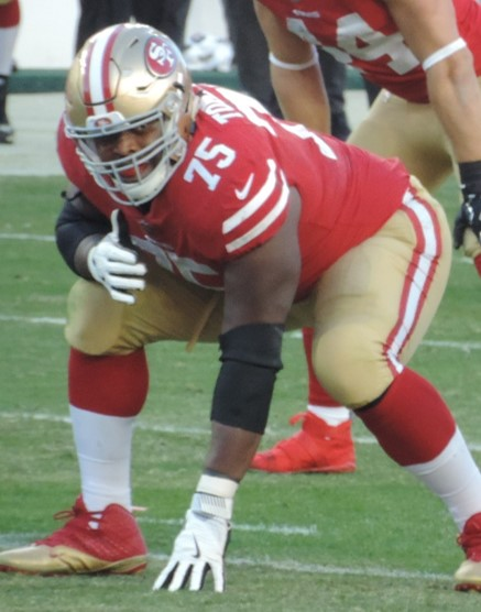 Laken Tomlinson with 49ers in 2017